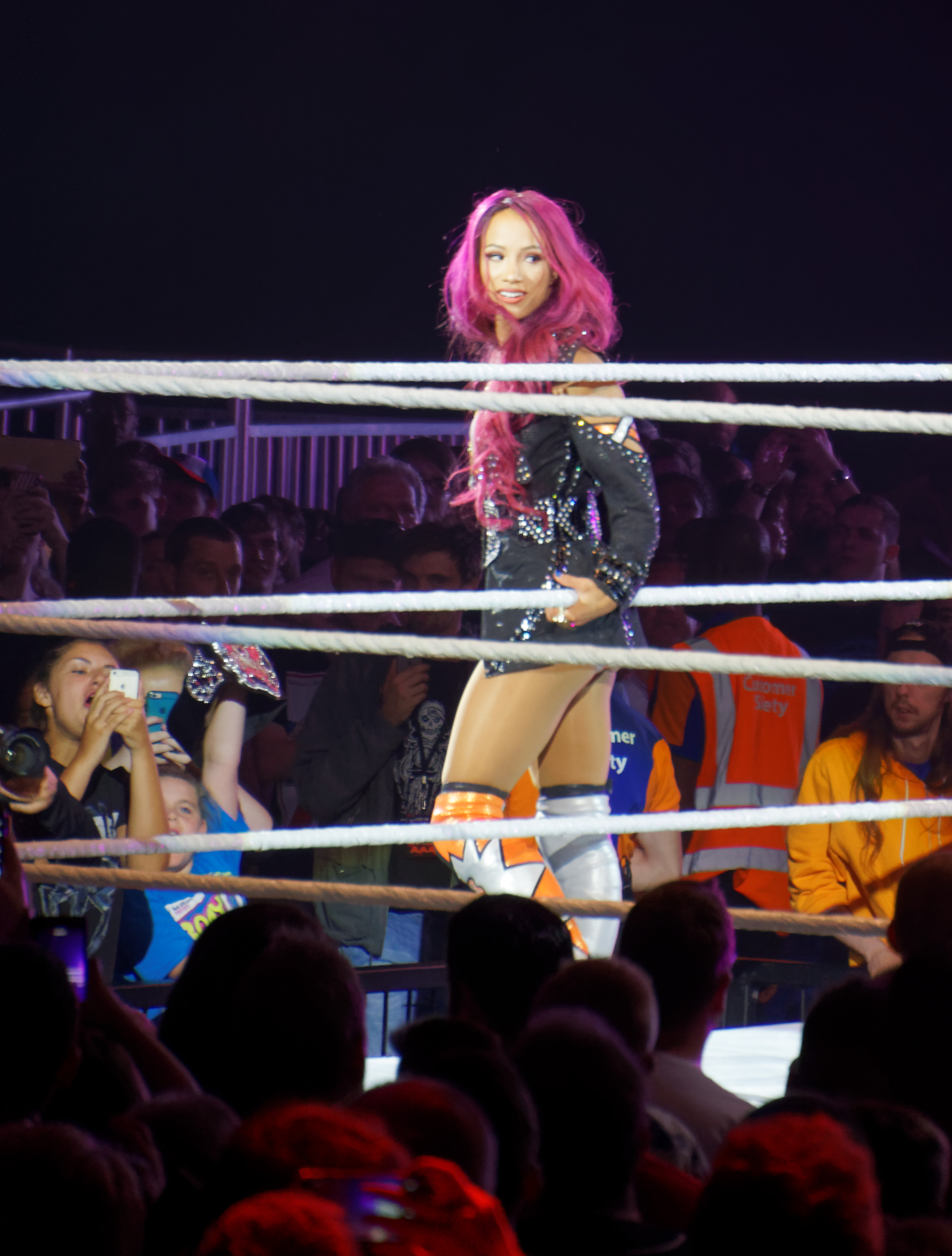 WWE Live returns to London this September Join Roman Reigns, Seth Rollins and more WWE Superstars at the 02 Arena for a one-night-only WWE Live in London on Wednesday, 7 Sept. Charlotte (c) def. (pin) Sasha Banks For : WWE Raw Women's Title